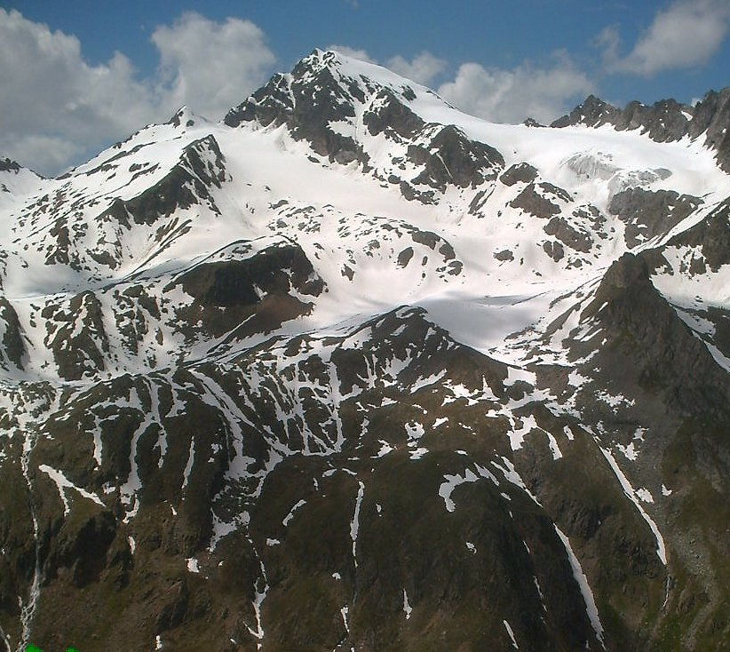 View from Grubenkopf to Rostizkogel. Rostizkogel from east direction.